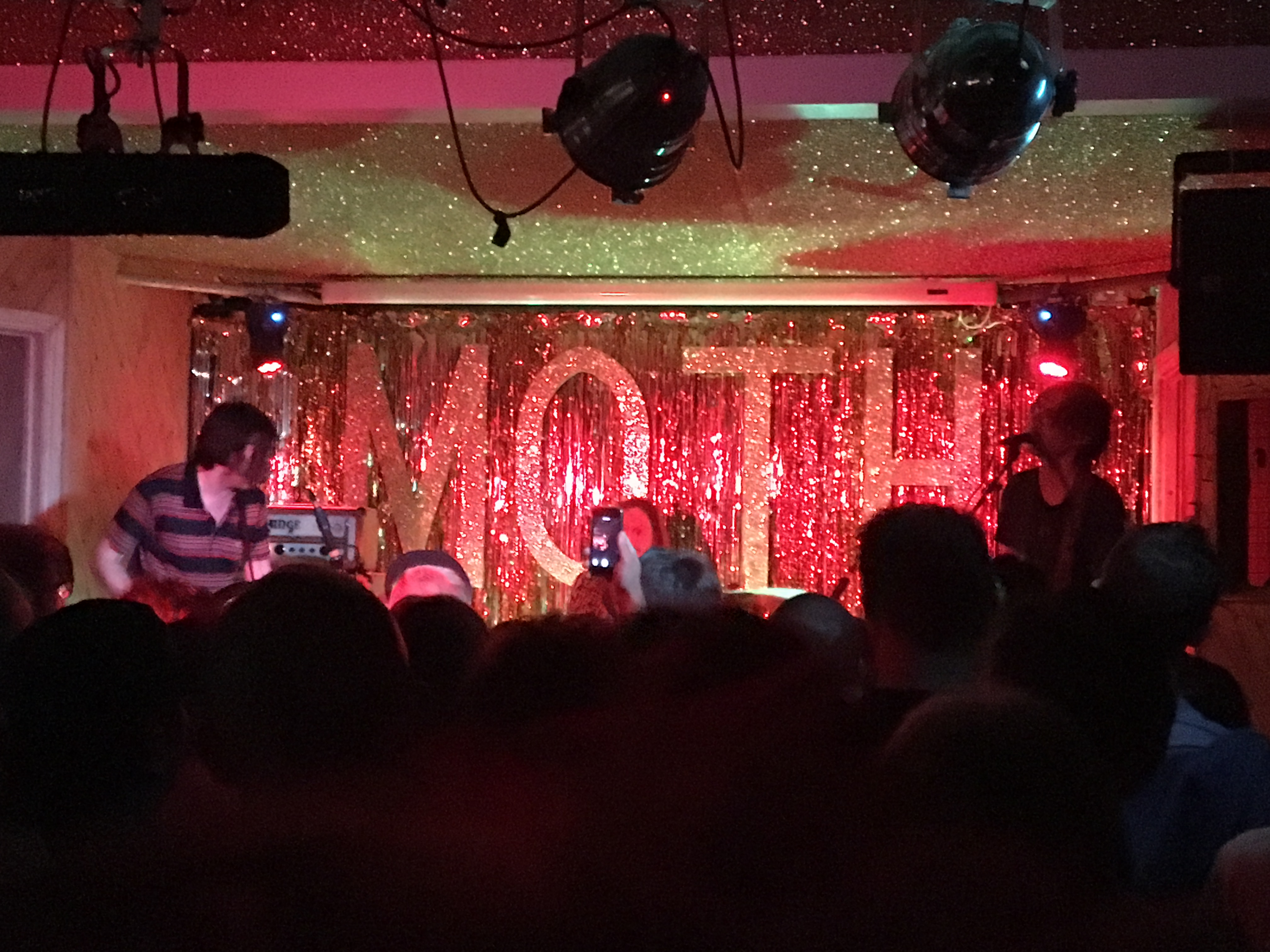 Dead Meadow live at The Moth Club, London England, 26th September 2016